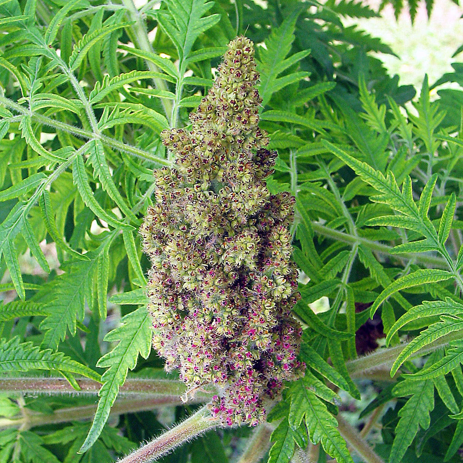 Rhus typhina 'Laciniata' female inflorescence